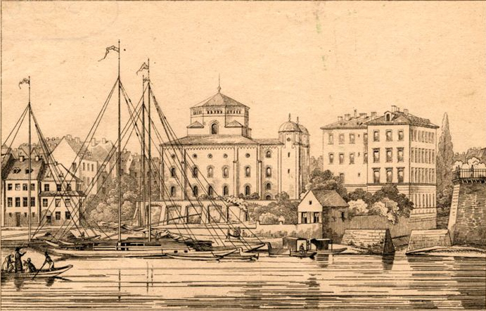 Black-and-white illustration of the Semper-Synagoge (Semper Synagogue), also known as the Dresdner Synagoge (Dresden Synagogue) or Alte Synagoge (Old Synagogue), showing a view of the synagogue Published in the Allgemeine Bauzeitung in 1847. Collection Title: William A. Rosenthall Judaica Collection - Prints and Photographs. Contributing Institution: College of Charleston Libraries